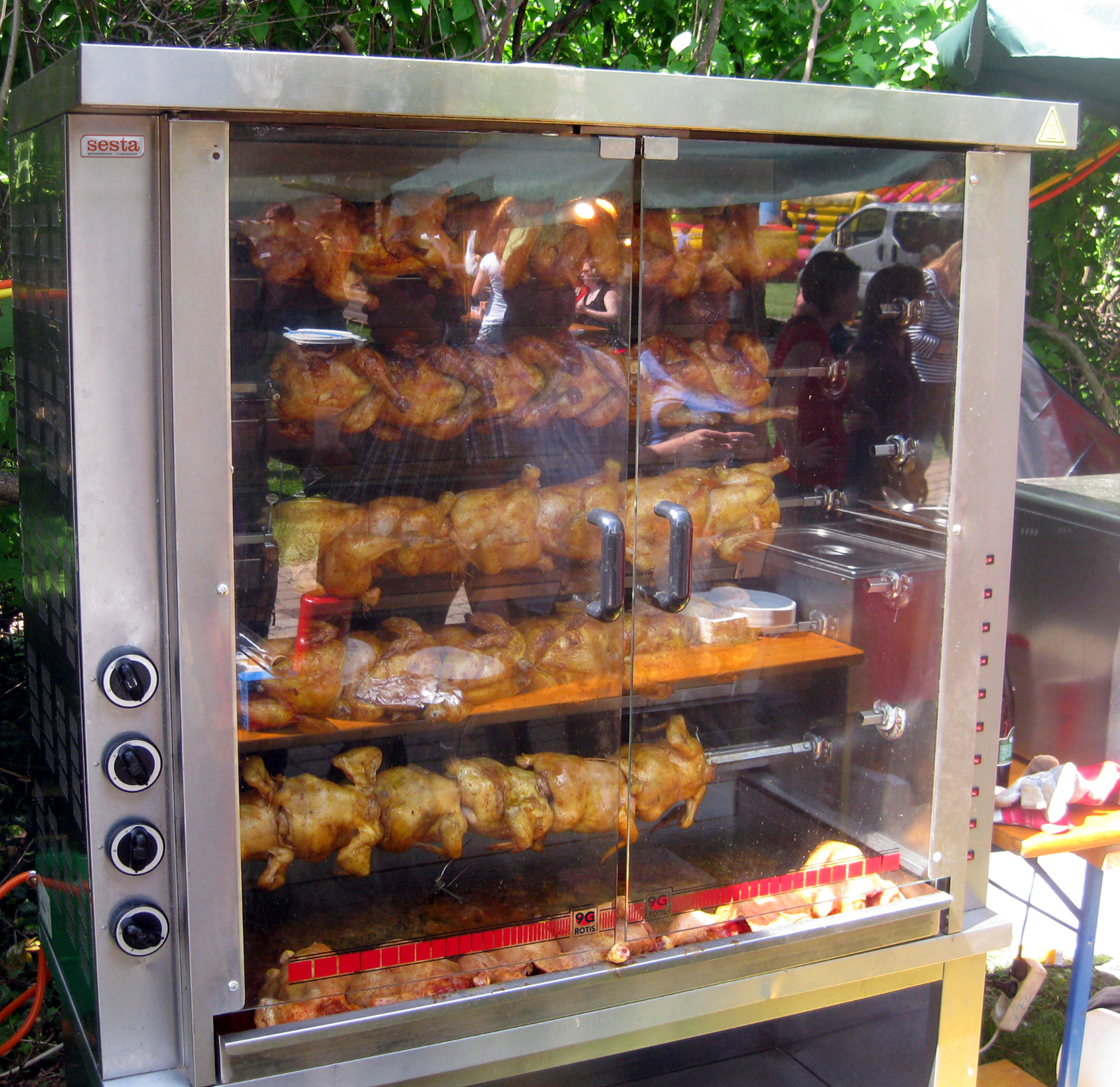 Gas operated rotisserie for chicken with horizontal spits for chicken